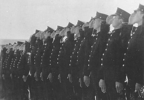 Yokaren (Imperial Japanese Navy's Preparatory Flight Trainee)